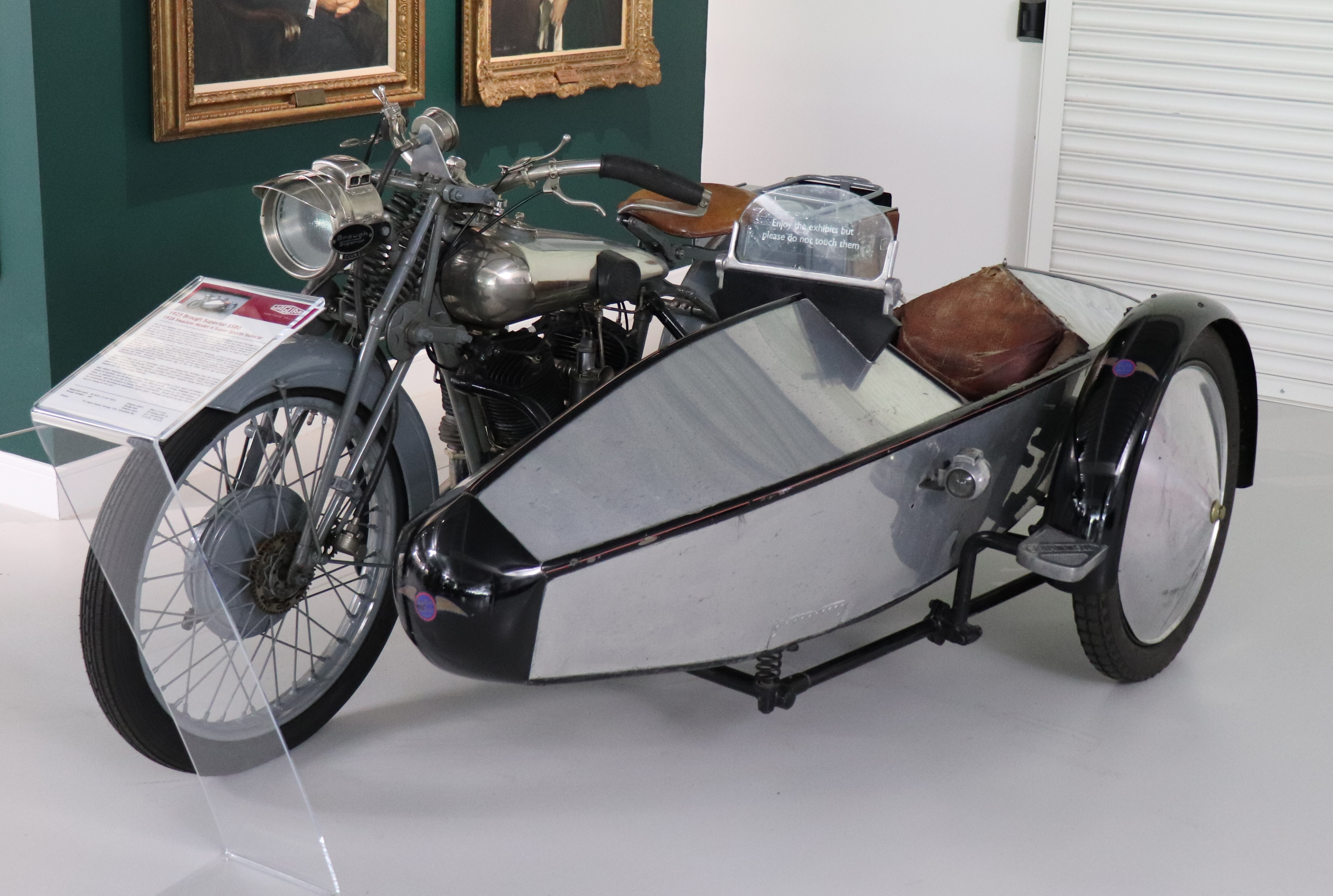 1925 Brough Superior SS80 & 1928 Swallow Model 4 Sidecar Taken at the British Motor Museum, Gaydon